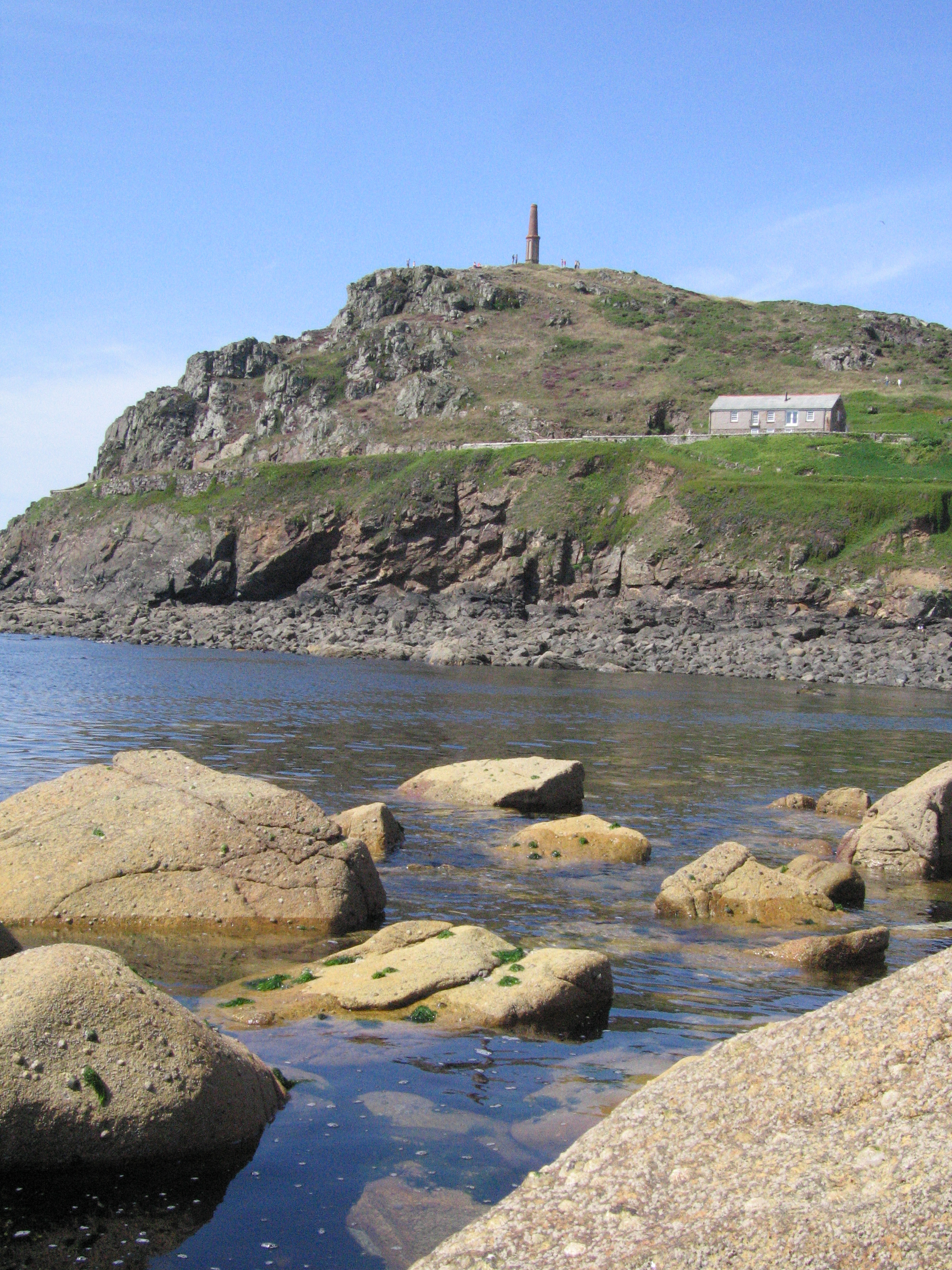 Capo Cornwall, taken from sea level at low (spring) tide.